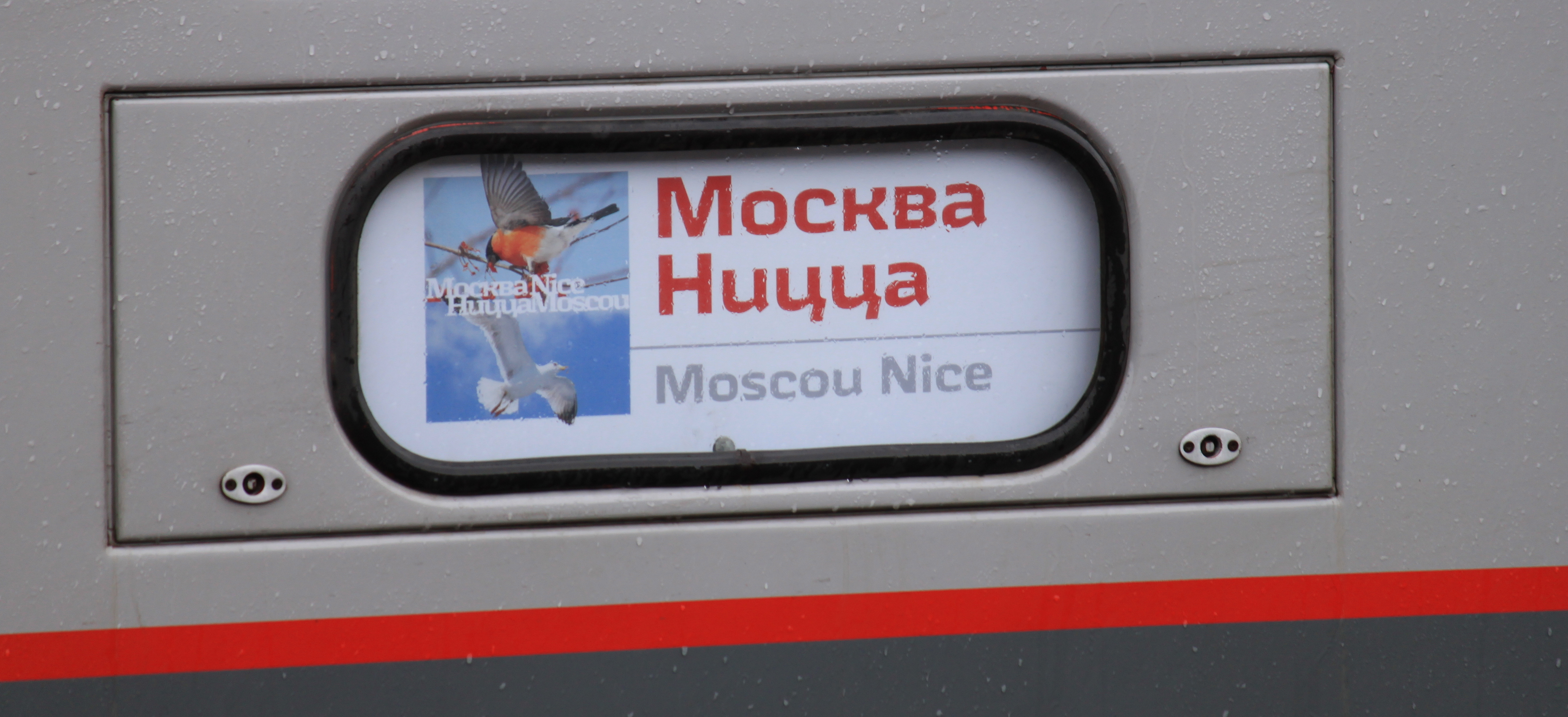 Katowice Central station - russian train from Moscow to Nice